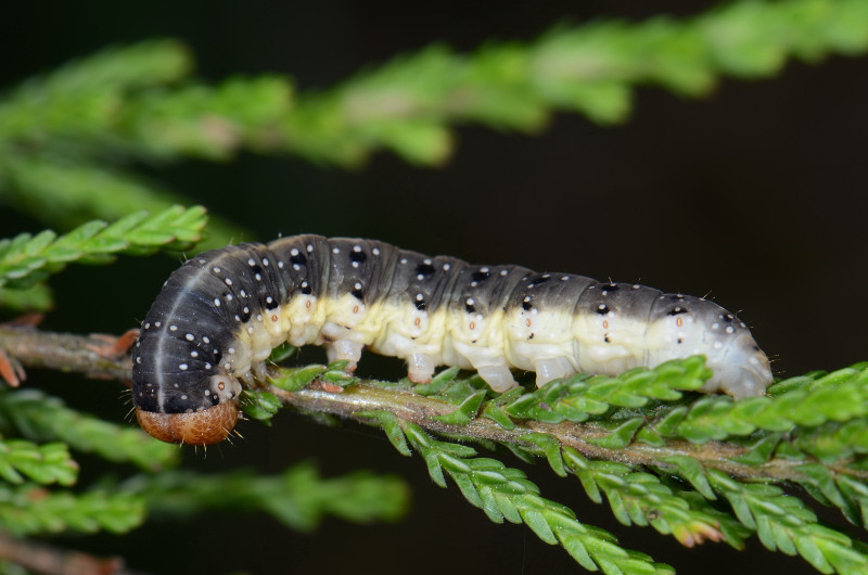 Achlya flavicornis, larva. Location: The Netherlands - Nationaal Park de Meinweg.